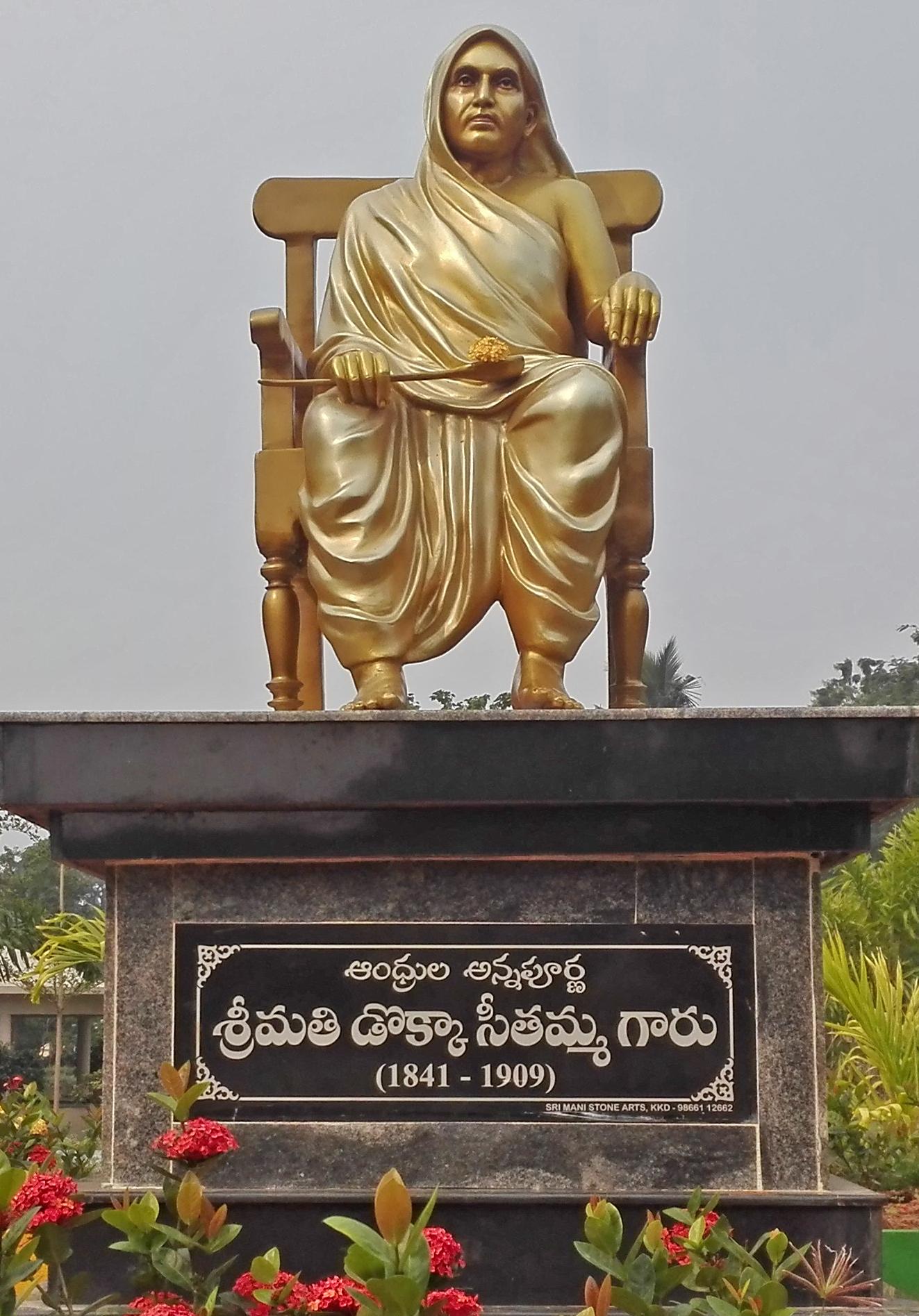 Statue of Dokka Seethamma at Vivekananda park in Kakinada city. Dokka Seethamma (or Sithamma; 1841 – 1909) was an Indian woman who gained recognition by spending much of her life serving food for poor people and travelers.